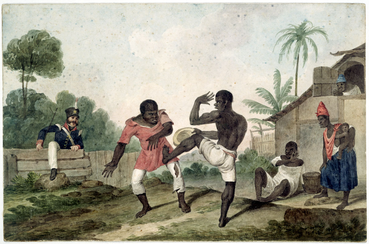 "Negroes fighting, Brazil" c. 1824. Painting by Augustus Earle depicting an illegal capoeira-like game in Rio de Janeiro